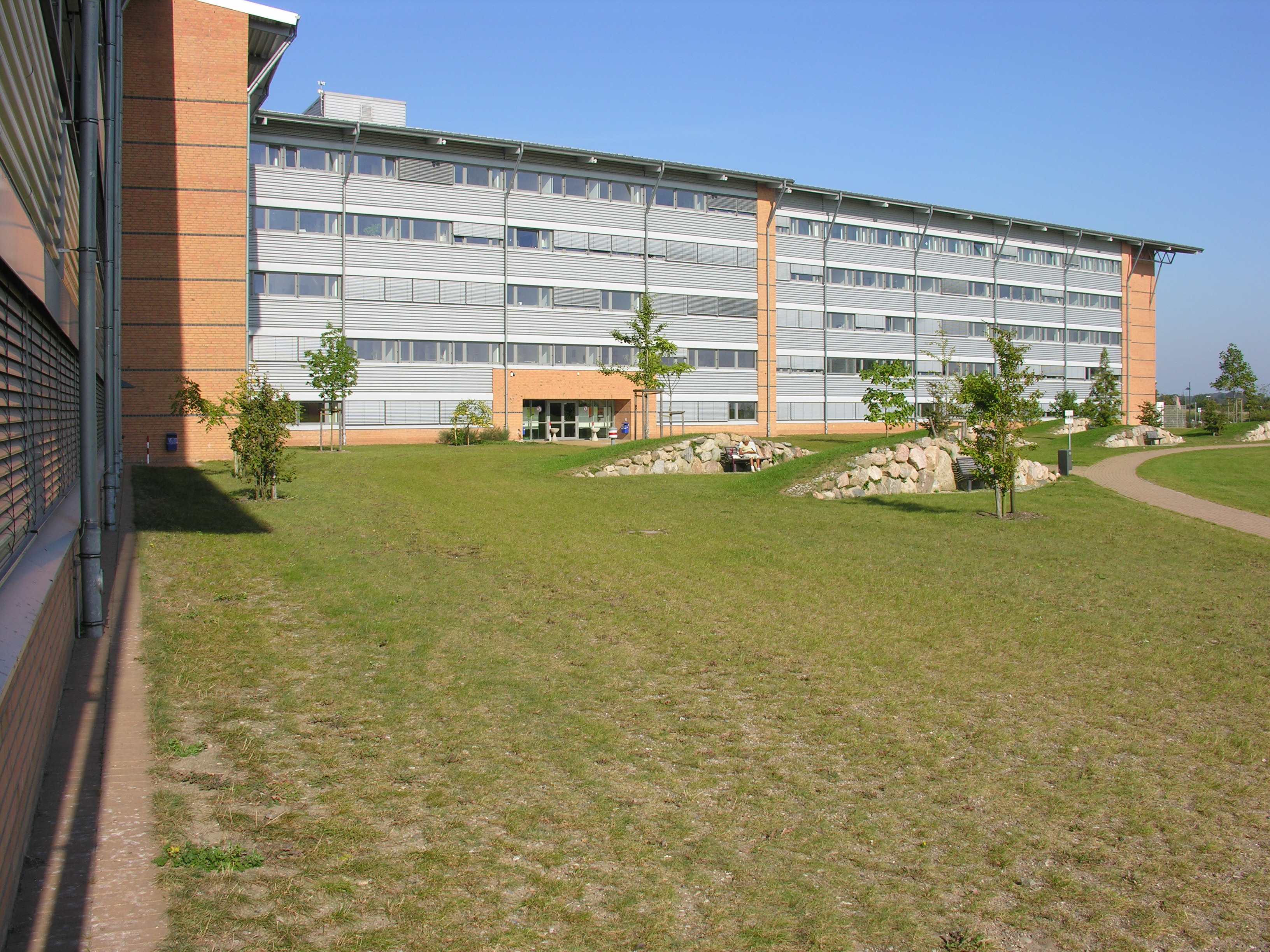 The main building of the University of Flensburg, Germany (back view)